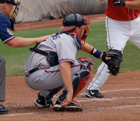 Clint Sammons playing for the Richmond Braves in 2008. Note:Cropped from larger image.